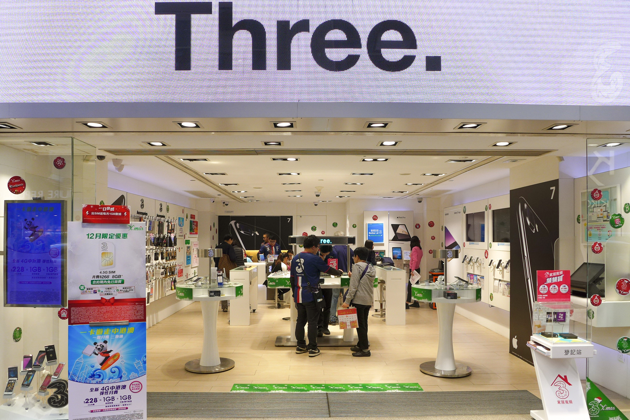 3-HK in Sai Yeung Choi South Street